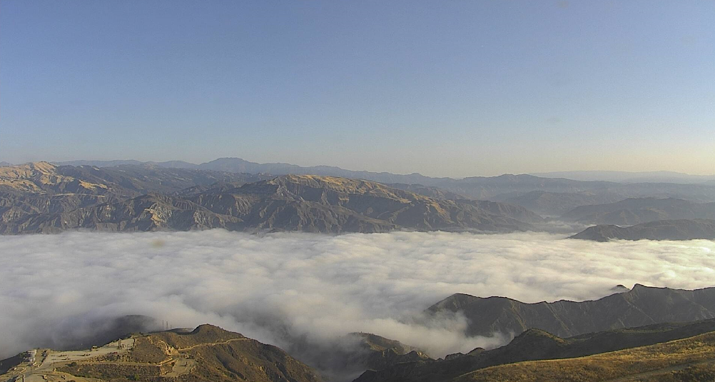 Morning web cam view of fog in the Santa Clara River Valley (Highway 126) near Piru, California. View from Torrey Peak. Web cam image courtesy of the County of Ventura.